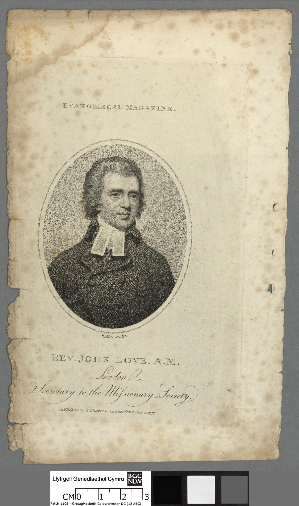 A portrait from the Welsh Portrait Collection at the National Library of Wales. Depicted person: John Love – Church of Scotland minister